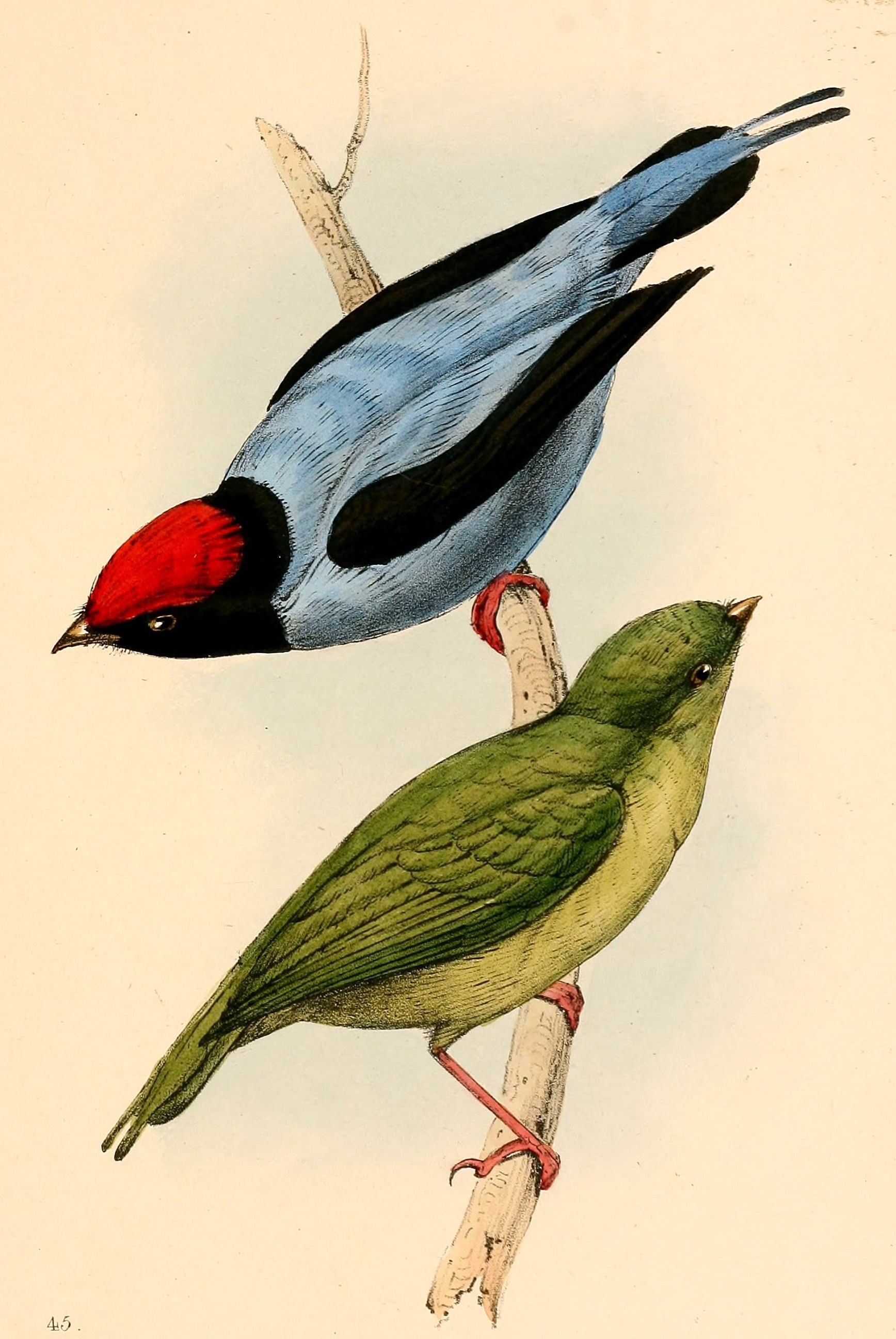 Pipra caudata = Chiroxiphia caudata (Blue Manakin)